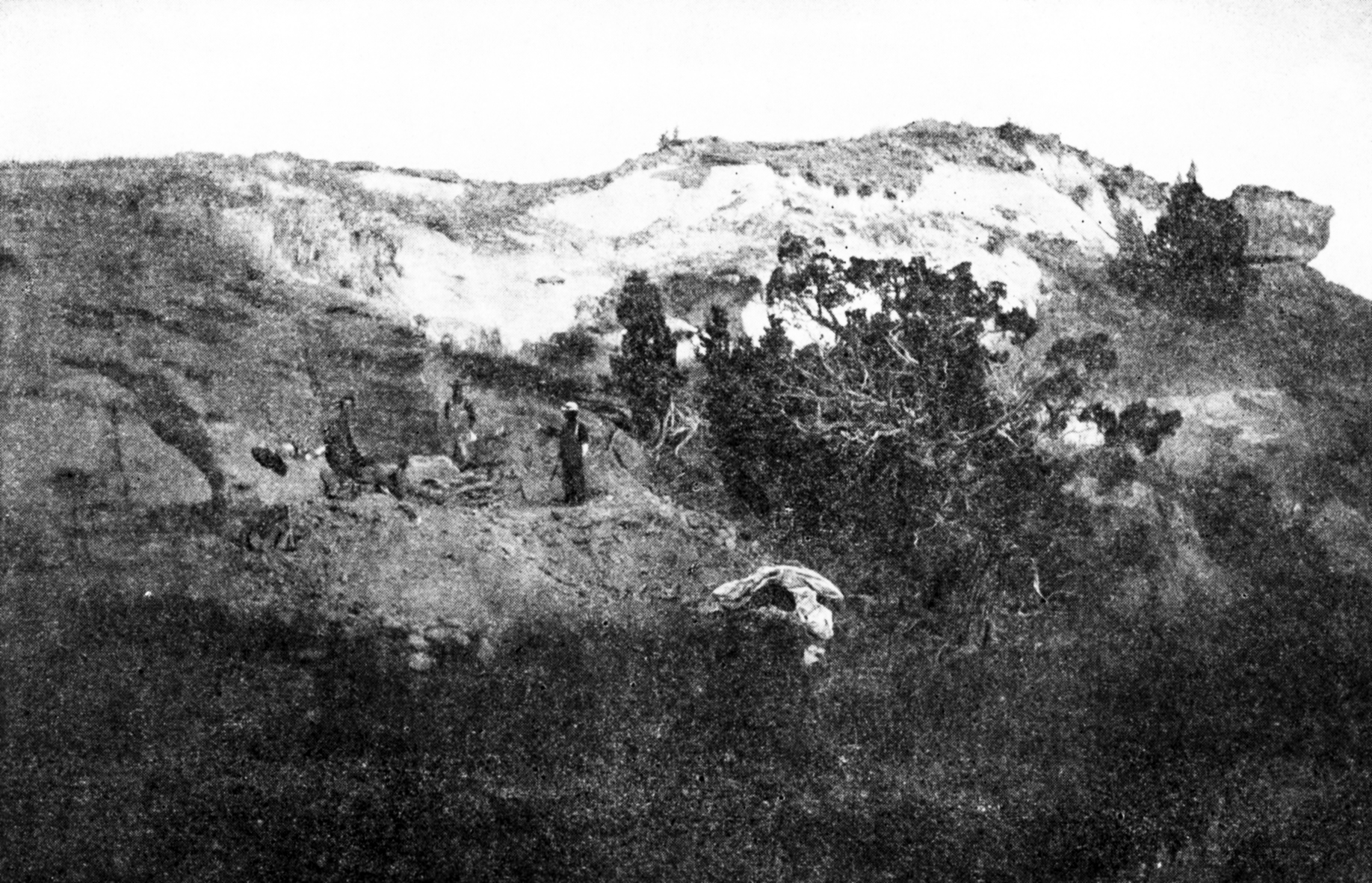 Trachodon mummy quarry in Wyoming. Only known photo of the excavation.